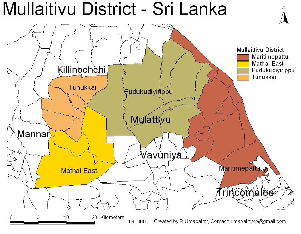 This is a map of Mullaitivu District of Sri Lanka